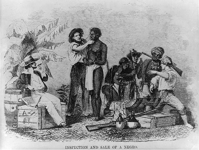 The inspection and sale of a Negro.This reproduction of a wood engraving was originally published in Captain Canot; or, Twenty Years of an African Slaver by Brantz Mayer. It depicts an African man being inspected by a white man while another white man talks with slave traders.